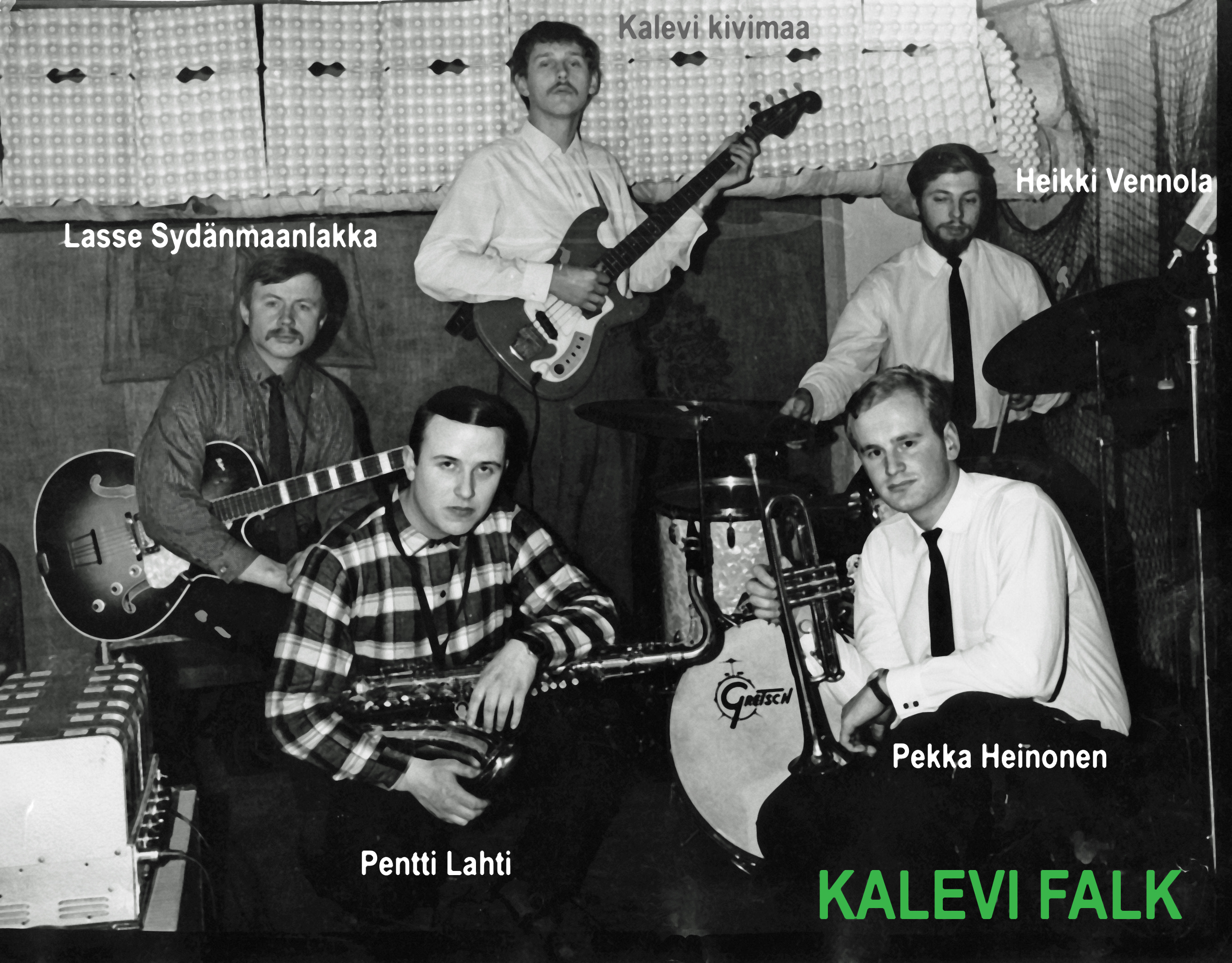 Kalevi Falk training studio, Helsinki